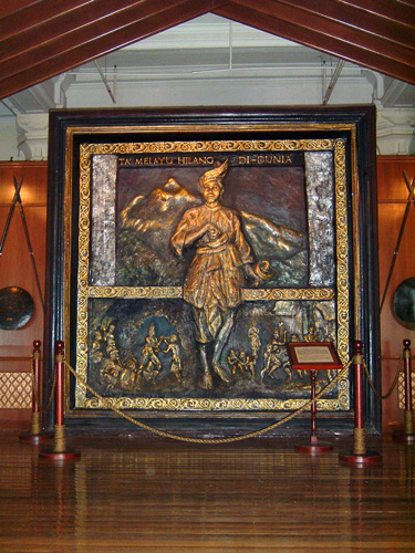 A bronze mural of Hang Tuah previously(now removed) at the National History Museum, Kuala Lumpur, Malaysia. Taken January 22, 2006